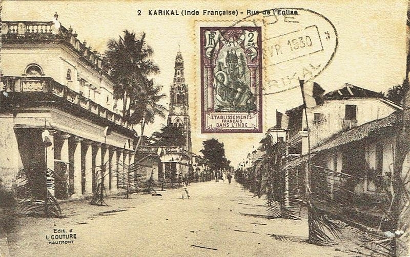 Rue de l'Église at Karikal (now Karaikal), one of the five settlements of French India. Our Lady of Angels Church is visible on the left. The postcard, while mailed in 1930, was probably published in the 1910s.